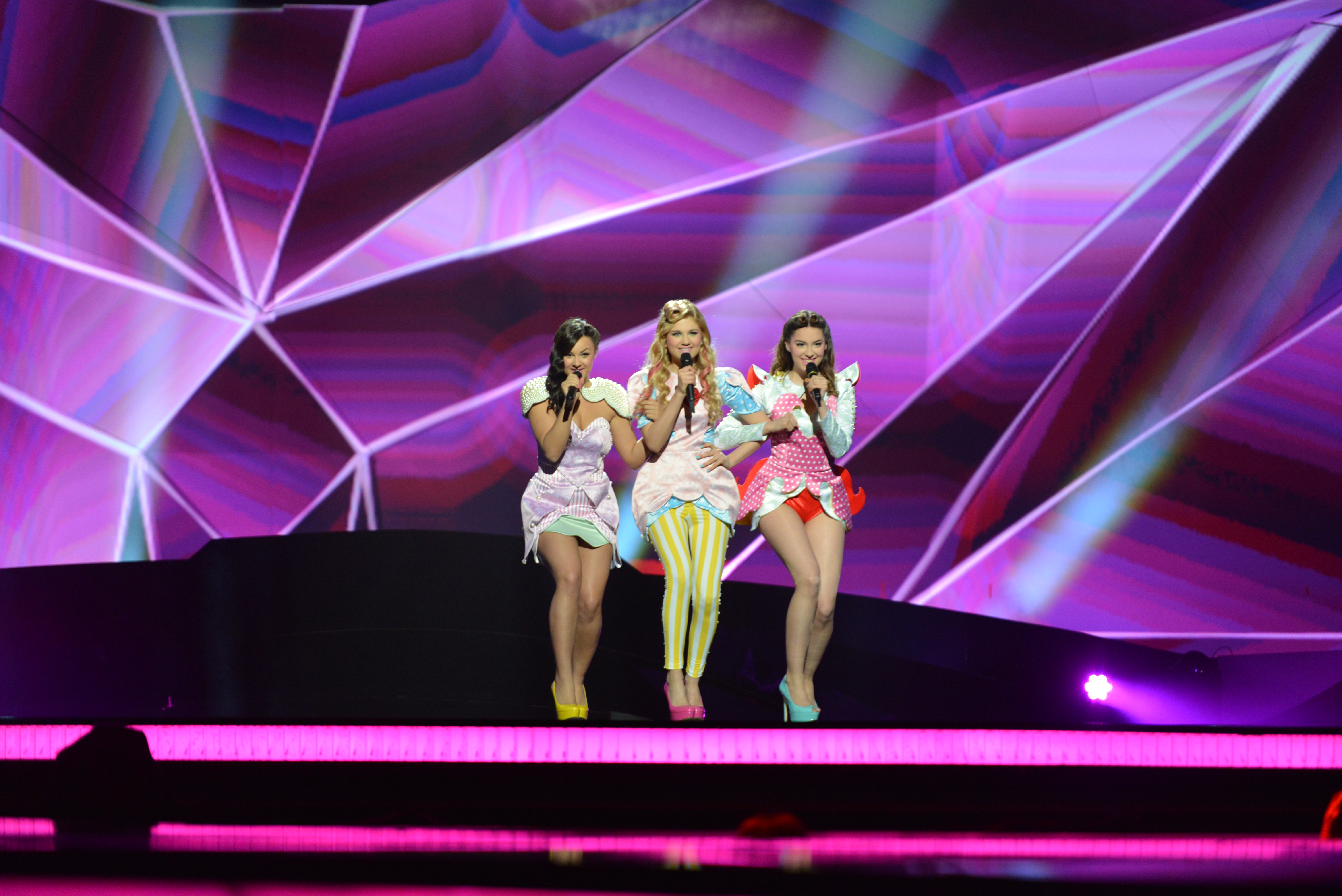 Moje 3 representing Serbia with the song "Ljubav je svuda" (Љубав је свуда) during the first dress rehearsal of the first semi final of the Eurovision Song Contest 2013 in Malmö. (Help translate this text)